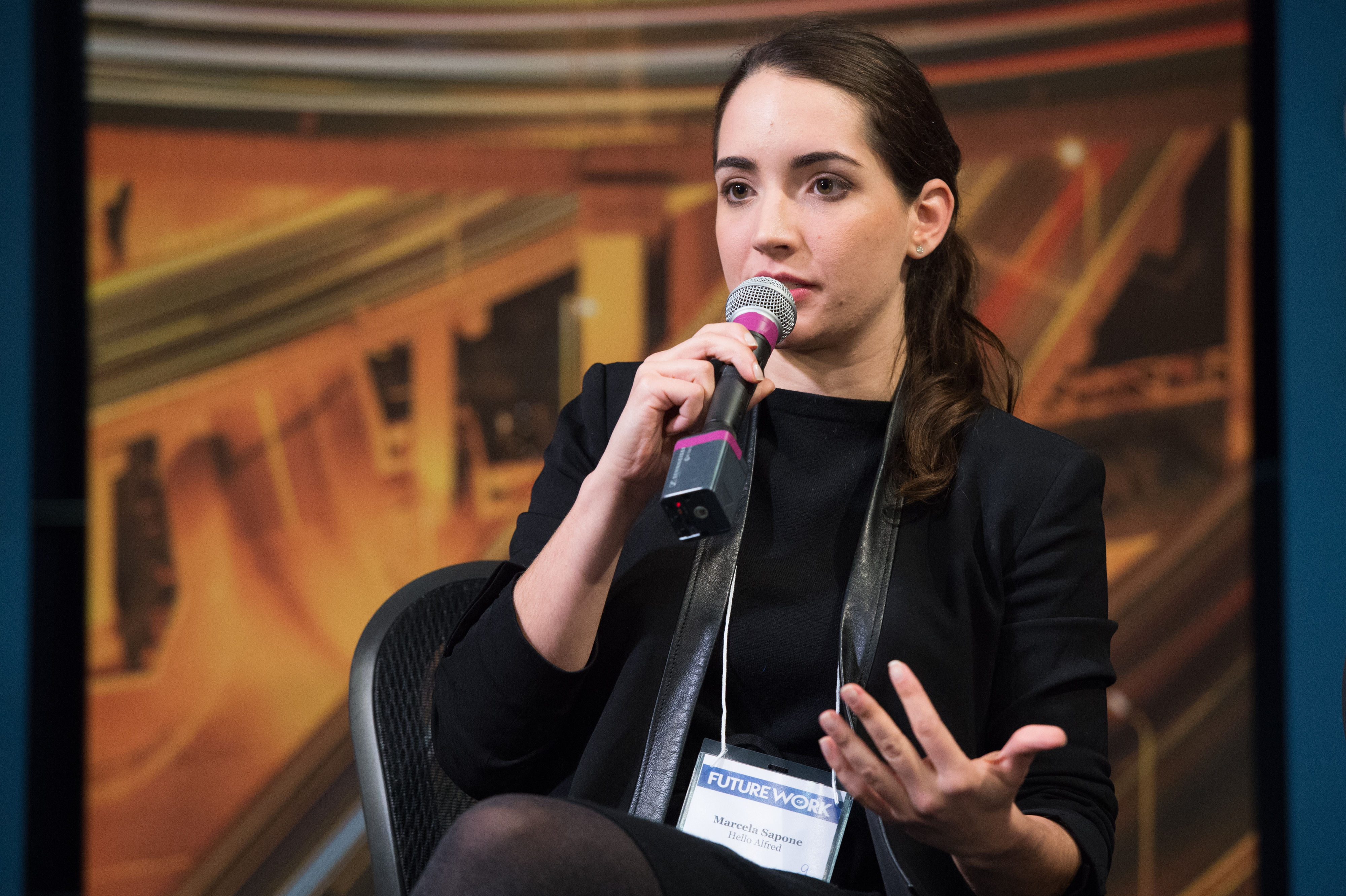 Marcela Sapone, CEO & Co-Founder at Hello Alfred talks to DOL employees and outside attendees as they gathered in the Great Hall in the DOL Building fora panel on “Positive Choices in the Digital Sector: Building Good Jobs Principles into Emerging Platforms” "Future of Work."